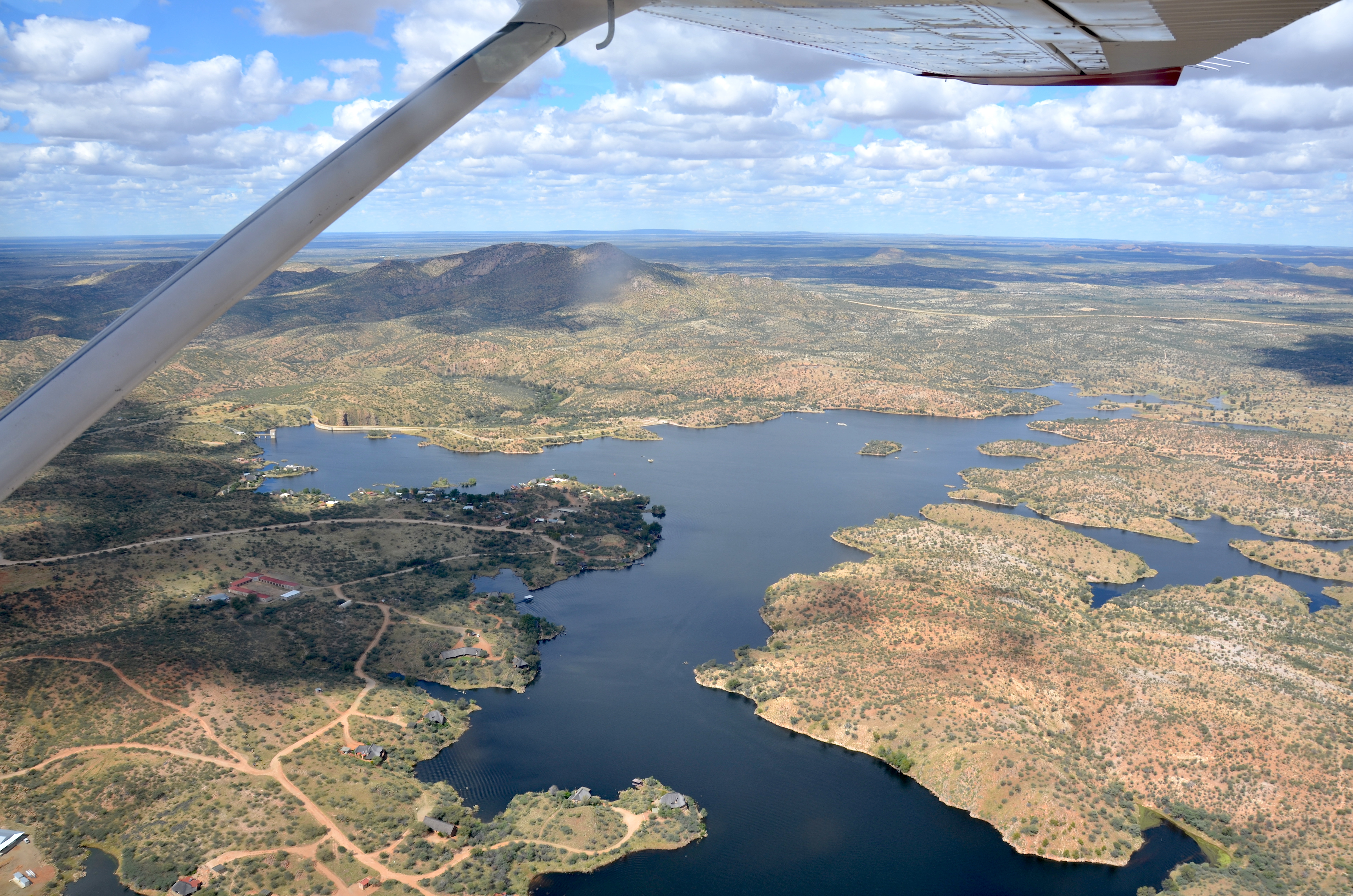 Lake Oanob from Bird´s eye view (2017)